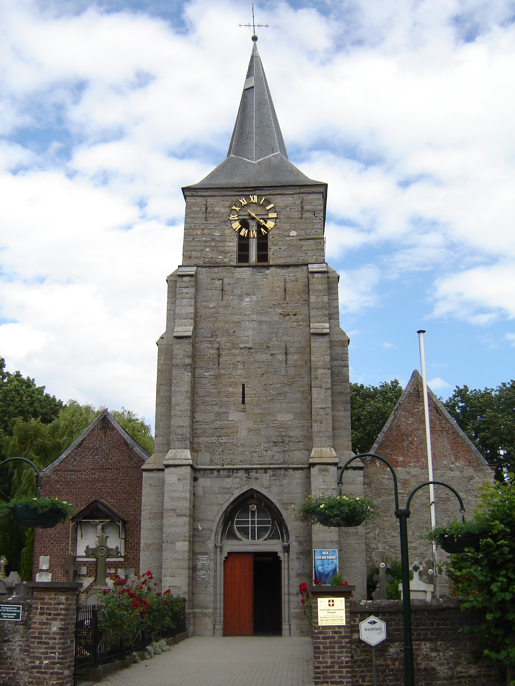 Church of Saint Peter, in Outrijve, Avelgem, West Flanders, Belgium.